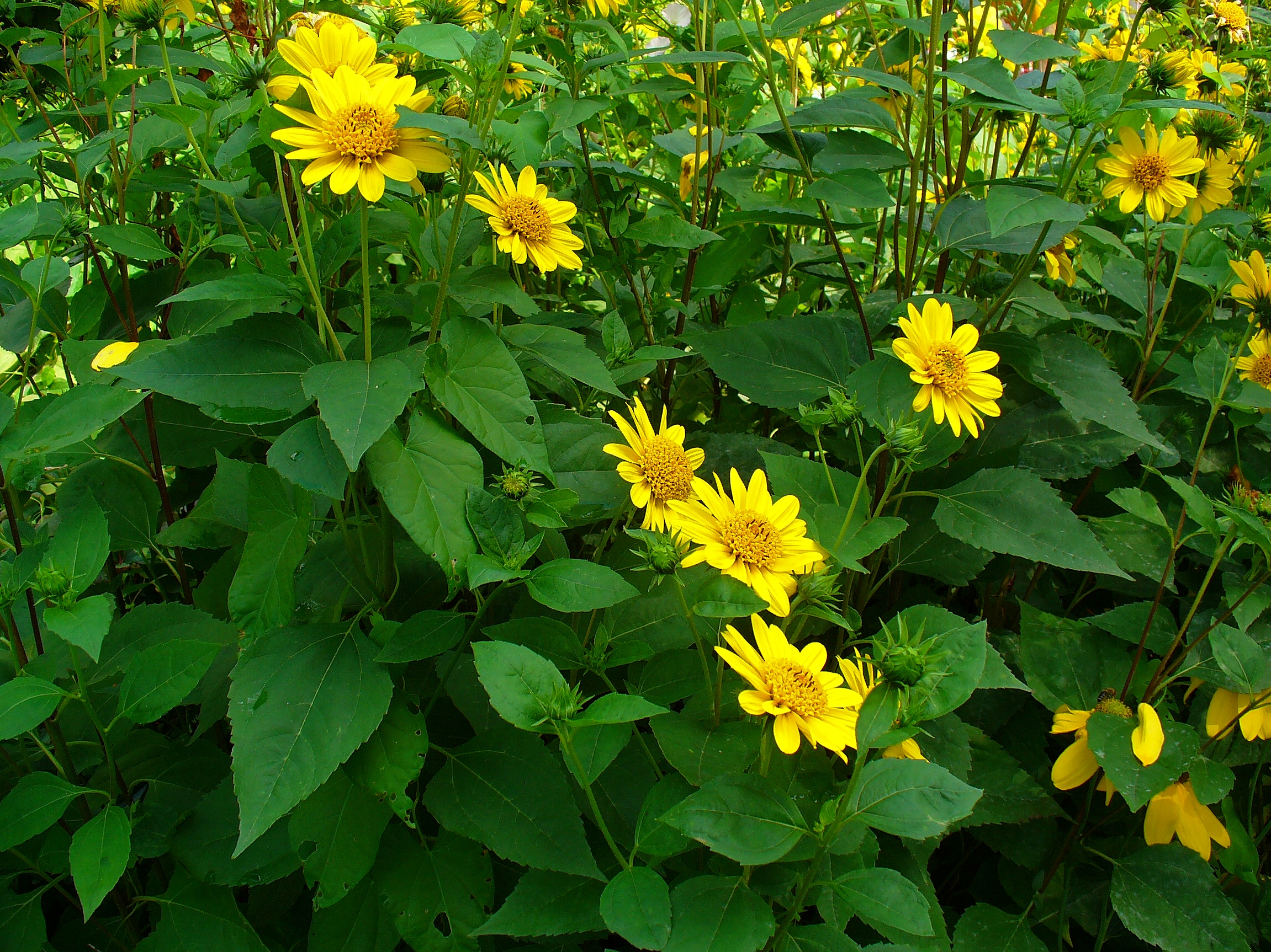 Helianthus decapetalus 'Plenus', habitus; Stadtgarten Karlsruhe, Germany.